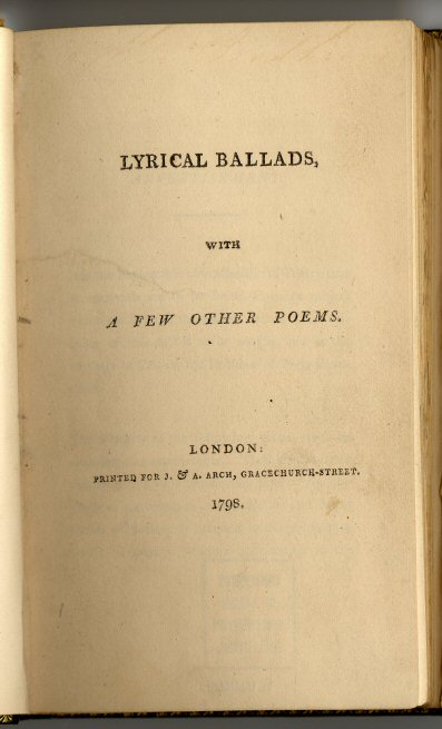 Title page from: Wordsworth, William and Samuel Taylor Coleridge. Lyrical Ballads, with a few other poems. London: Printed for J. & A. Arch, 1798.